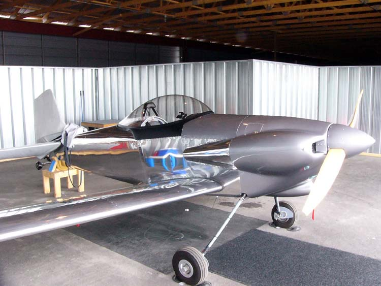 I took this photo at Carp Airport on 11 June 2006